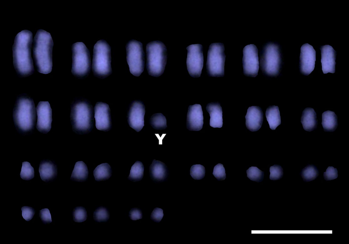 DAPI stained karotype of Aprasia parapulchella male, from a legless lizard found in Canberra. It shows 42 chromosomes with a XY with small Y. Scale bar is 10 microns